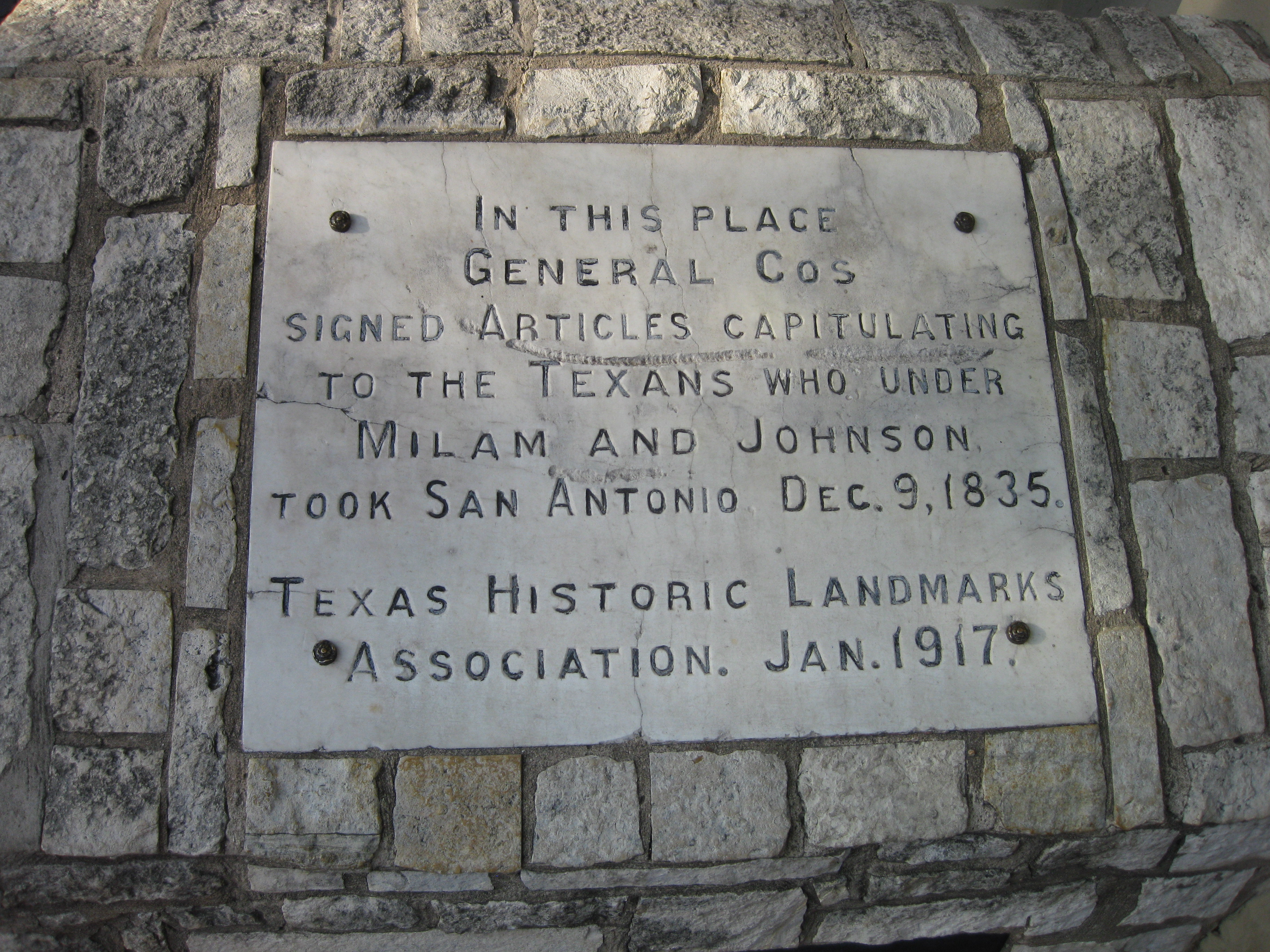 The site of capitulation of San Antonio, 1835